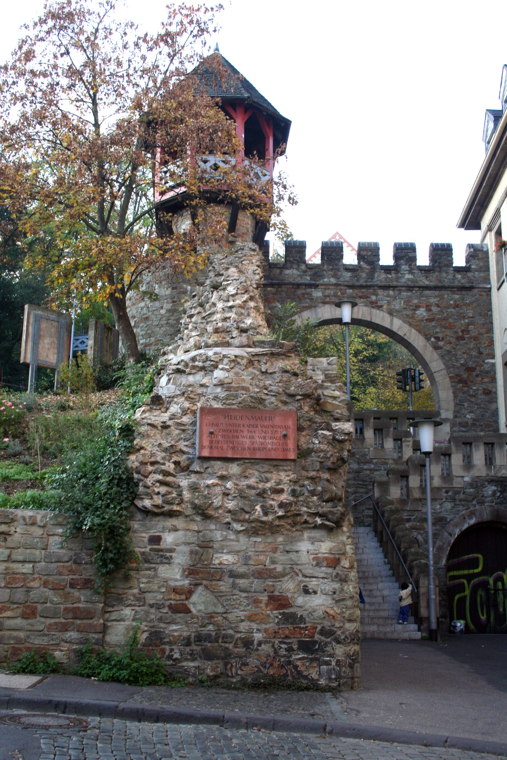 Stone wall - the most ancient construction of Wiesbaden